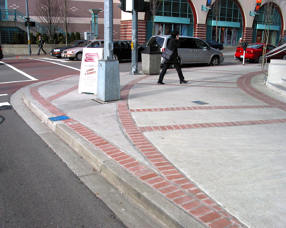 Reduced radius corner located in New Westminster, British Columbia, Canada